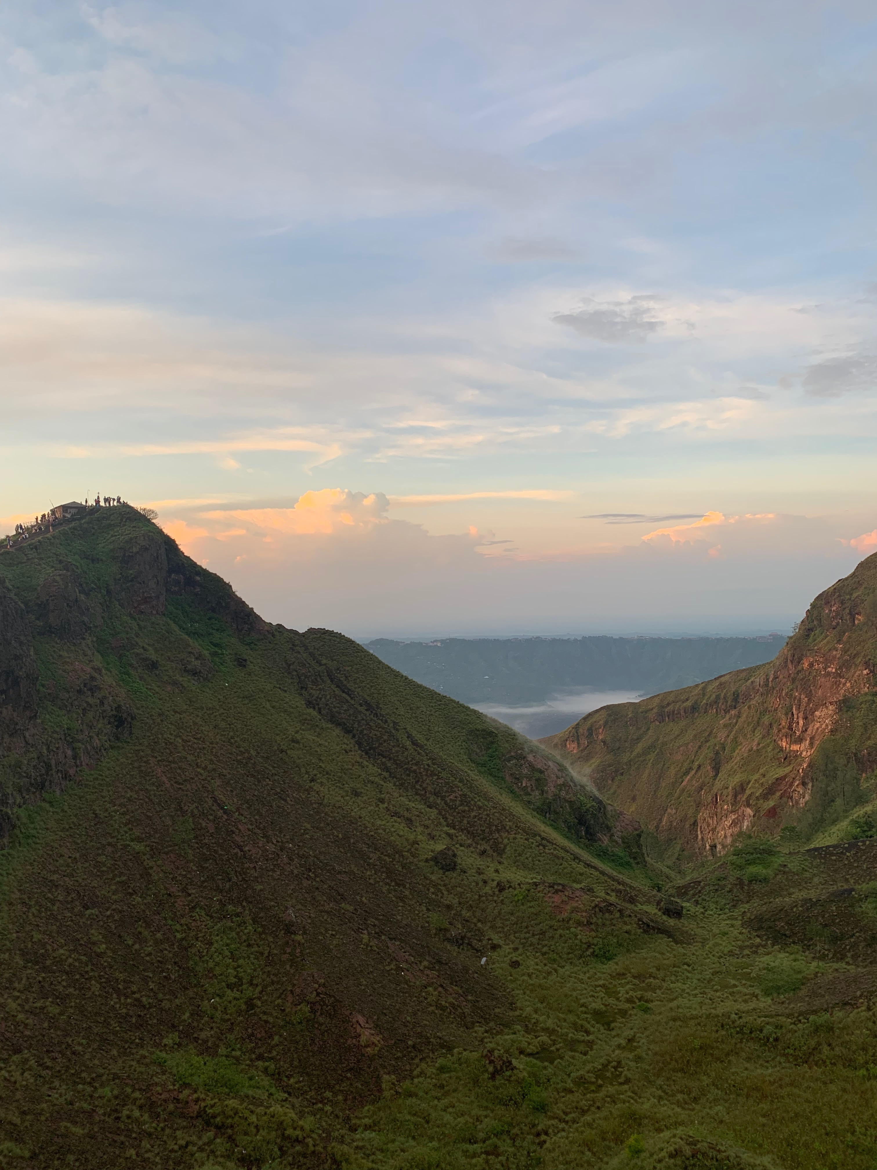 Photo captured at the top of a hike up Mount Batur in Bali, Indonesia during sunrise.